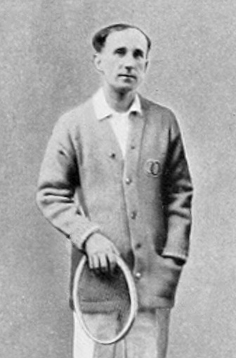 Maurice Germot at the 1912 Summer Olympics